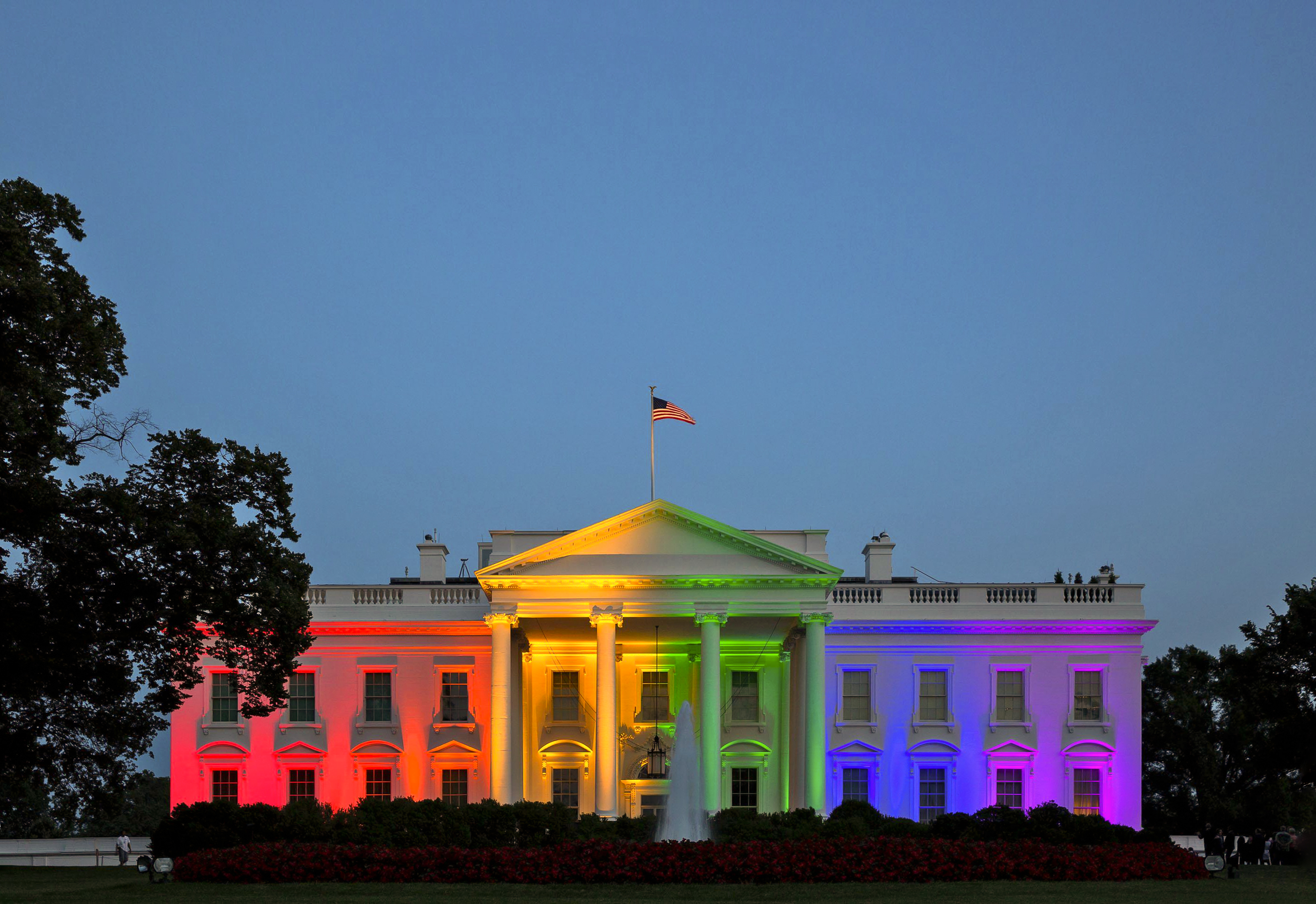 The White House lit with the LGBT rainbow flag in celebration of the passing of same-sax marriage